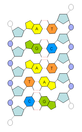 Sketch of DNA molecule